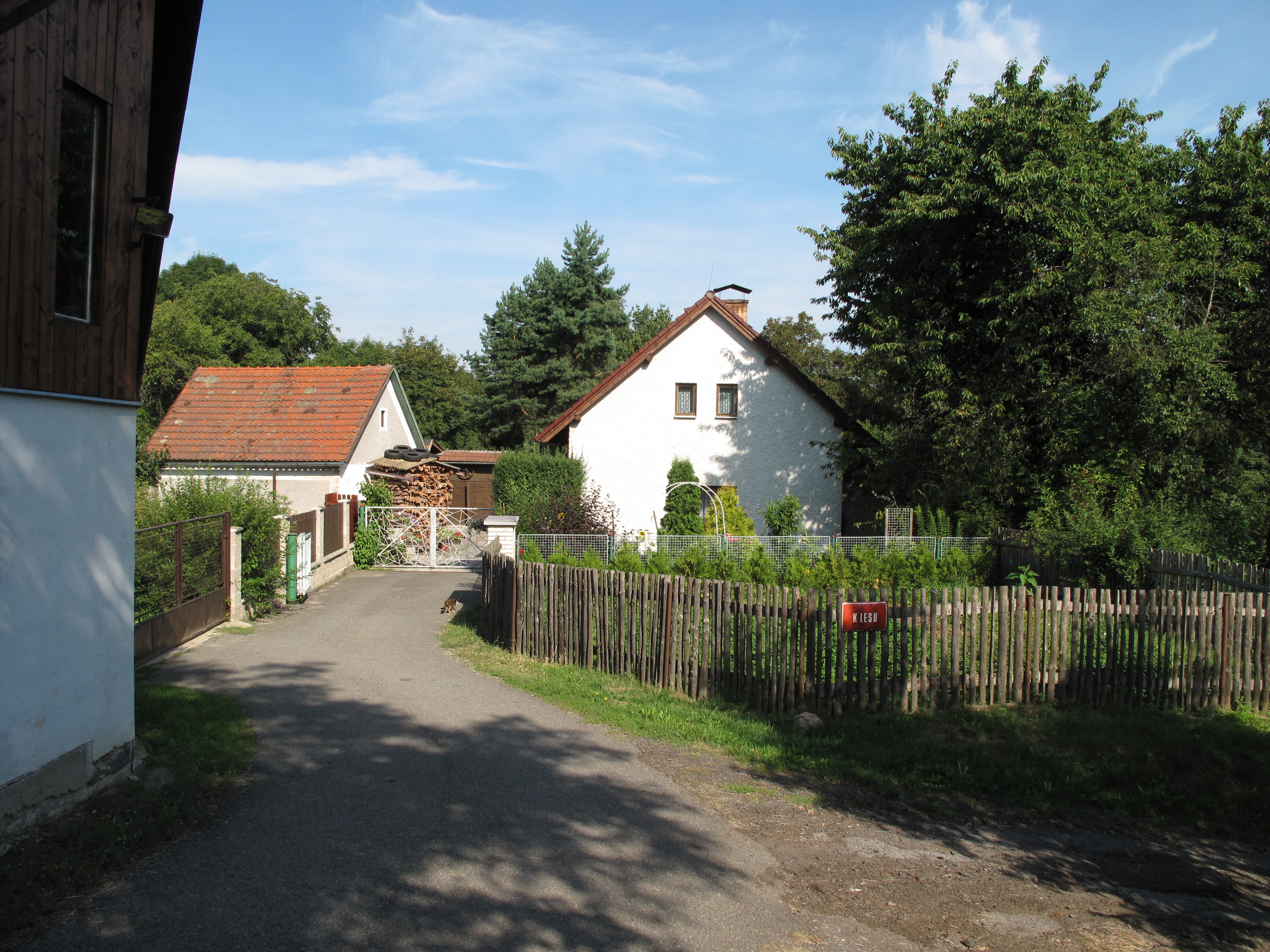 Entrance to yard in Klenové village, Prague-East District, Czech Republic.